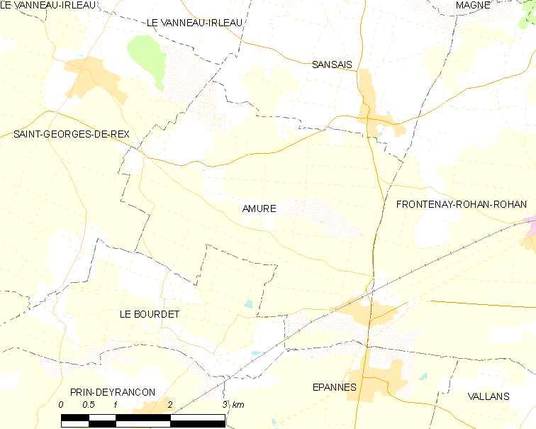 Map of French municipality Amuré